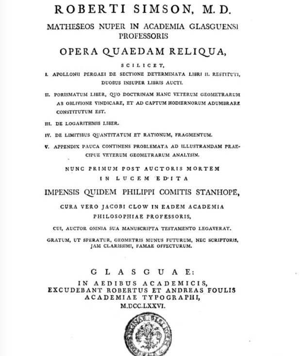 Frontoage Robert Simson Opera